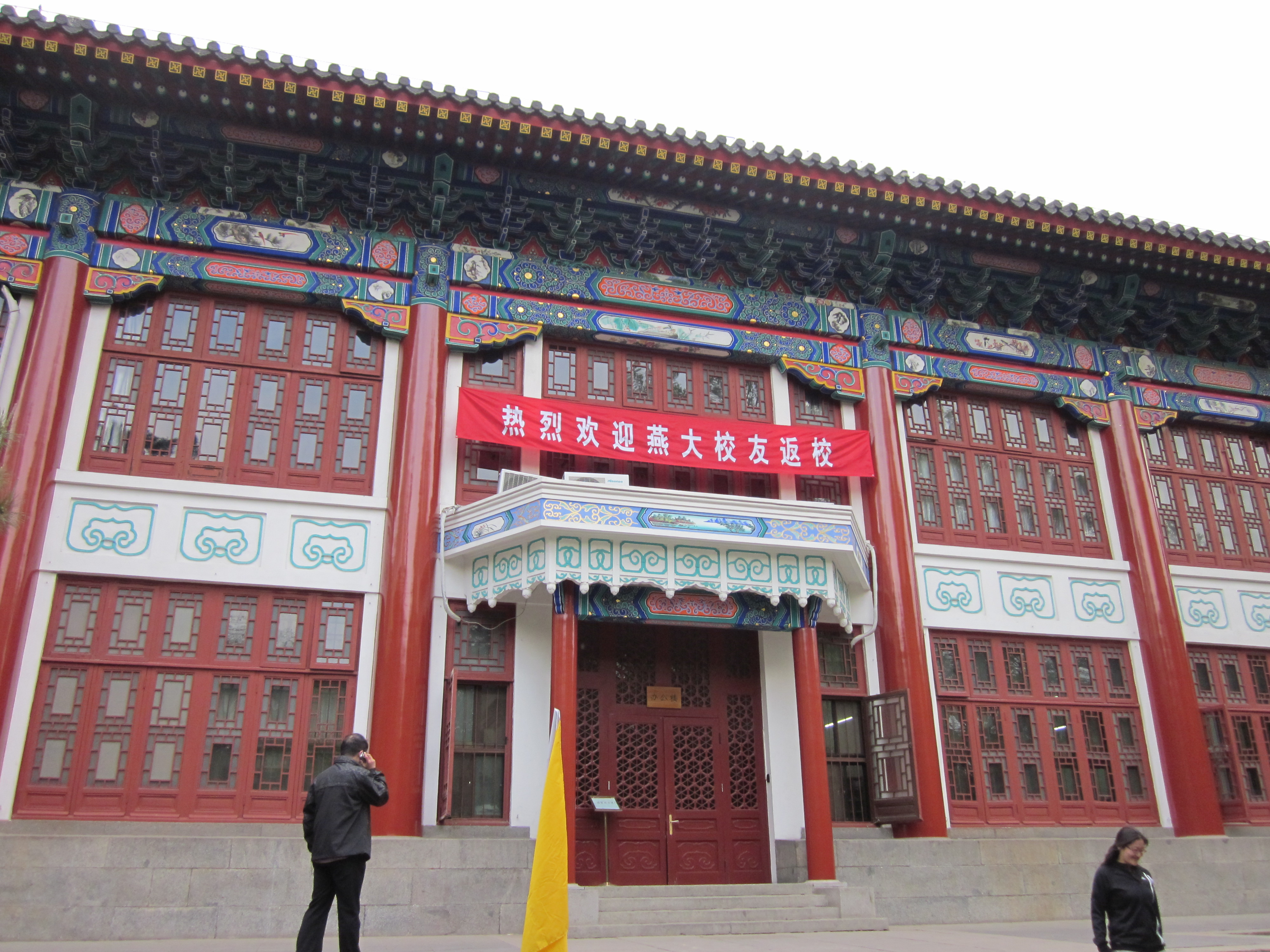 A building in Peking University.